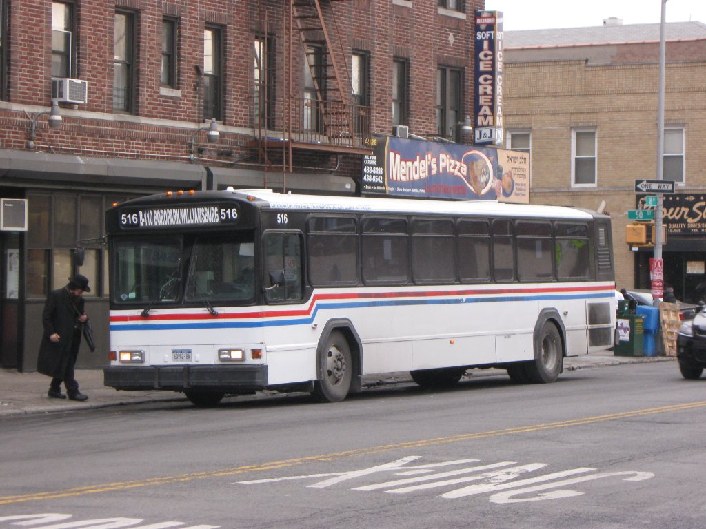 A B110 bus drops off customers in Bensonhurst on a Friday afternoon. This bus does not make a return trip owing to Shabbos approaching.